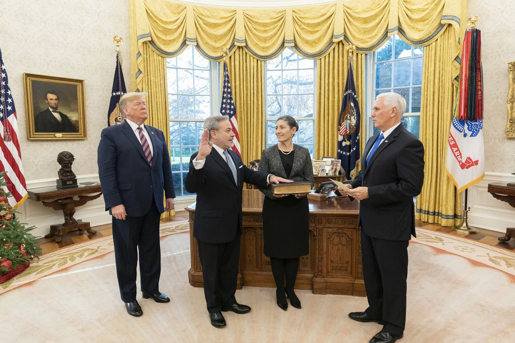 It is with tremendous honor and gratitude that I take the oath to serve this great nation as the United States Secretary of @ENERGY.